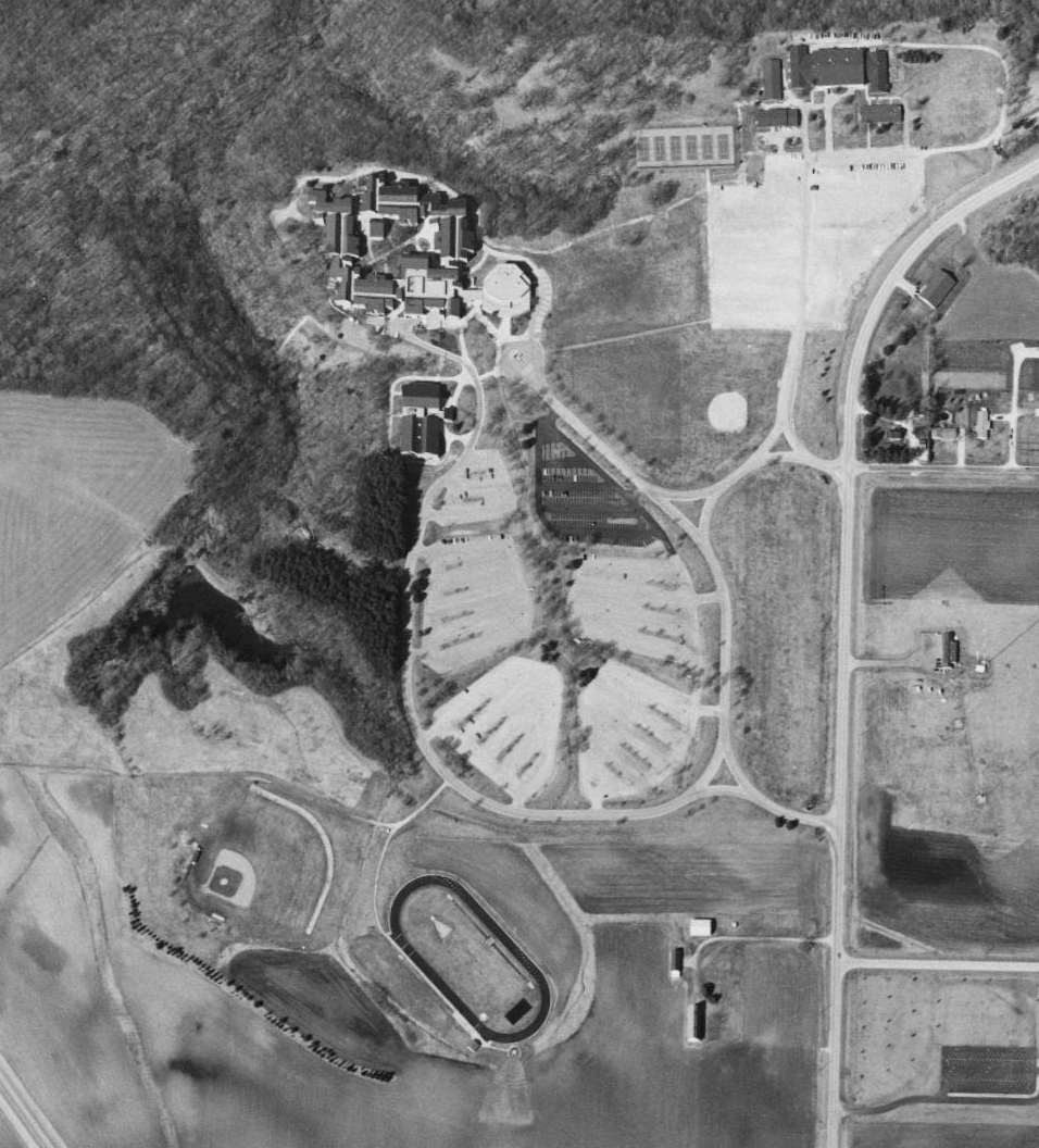 Aerial image of Illinois Valley Community College.